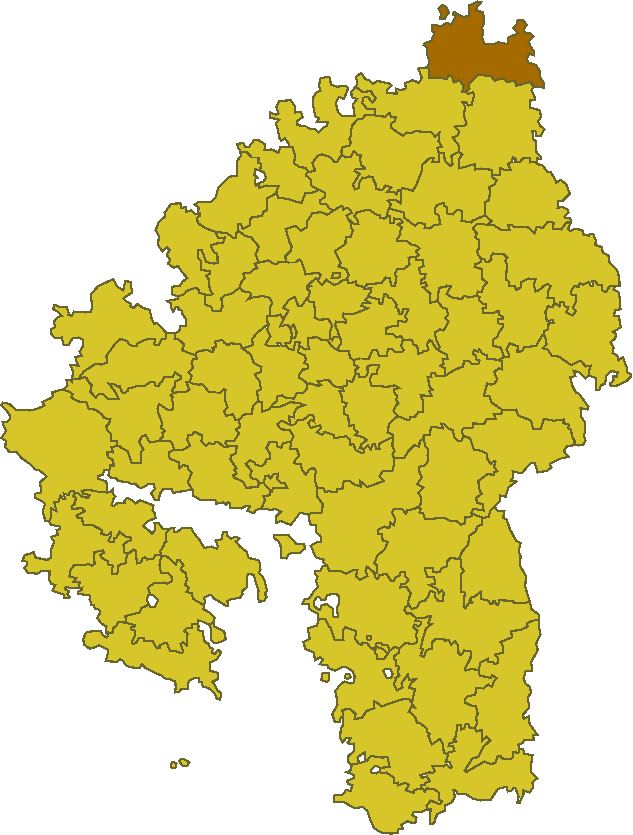 Map of administrative subdivisions (Oberämter) in Württemberg as of 1835, Oberamt Mergentheim marked in brown